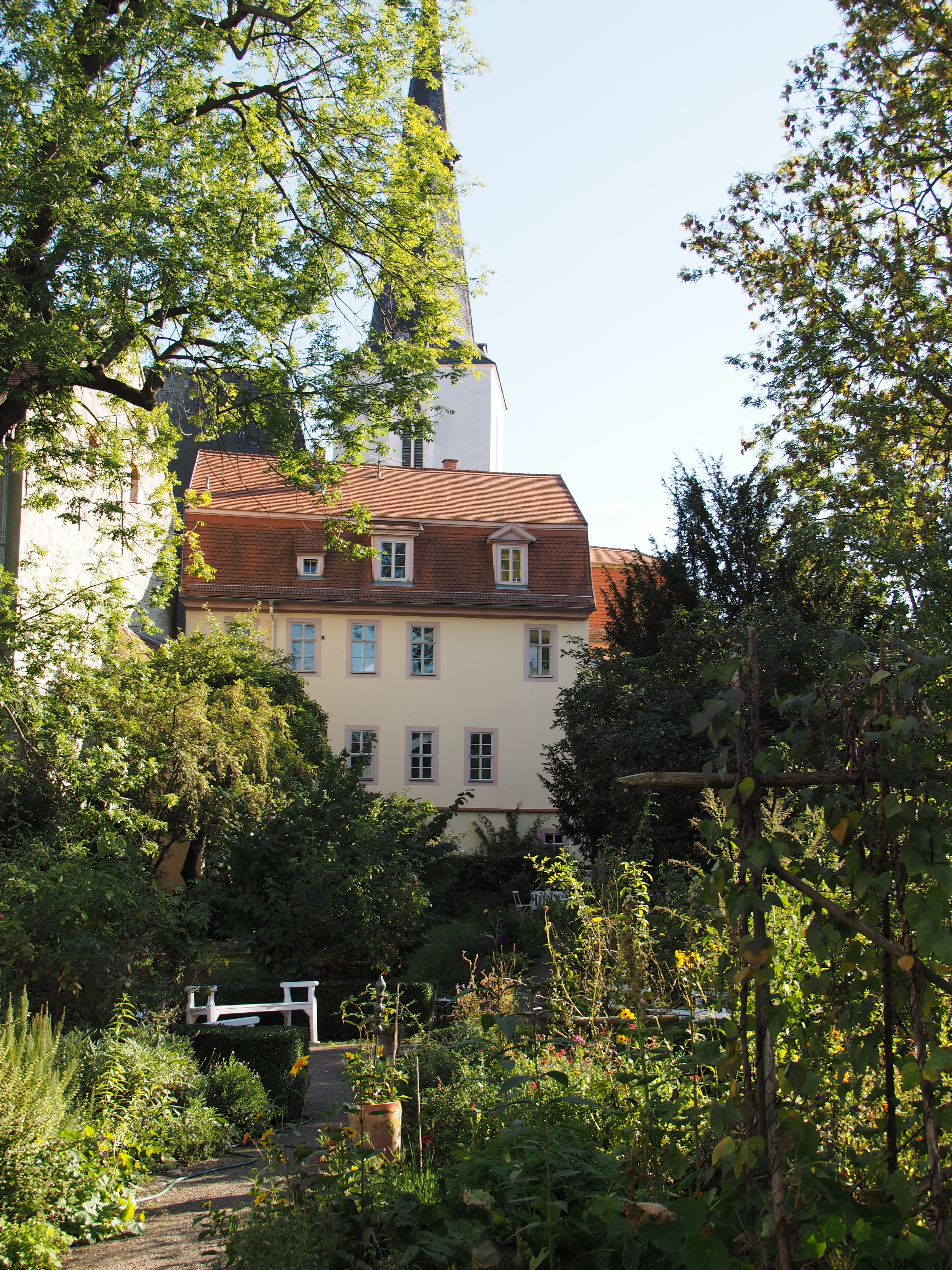 Historic Herder Garden, Weimar